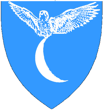 a fictional coat of arms